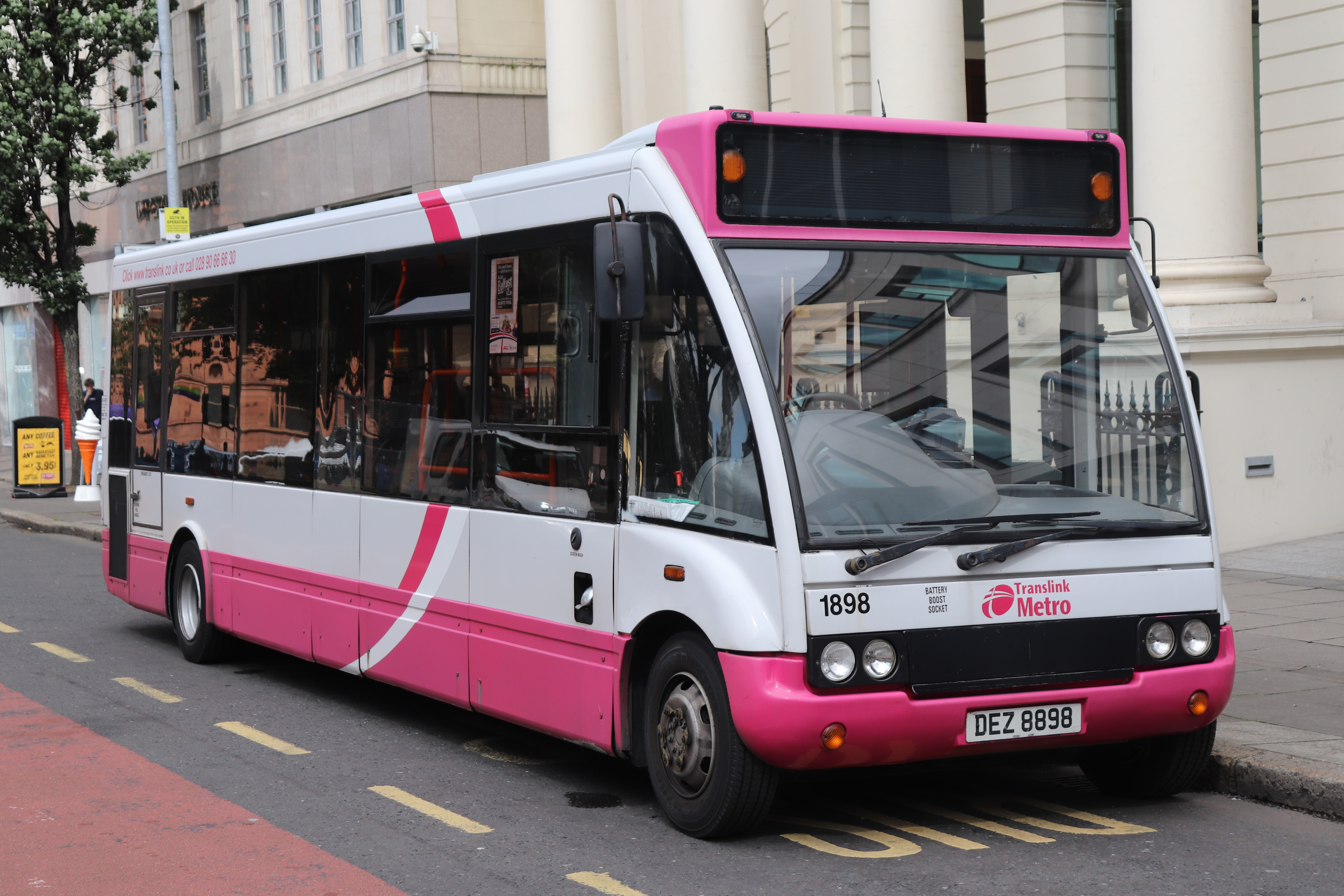 A Metro Optare Solo Bus 1898 on route 95 to Royal Hospitals